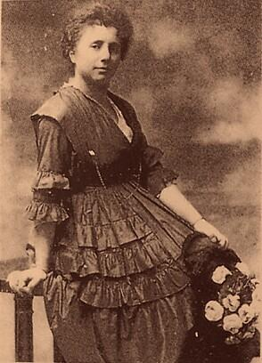 Historical figure Margherita Sarfatti, mistress of Benito Mussolini.